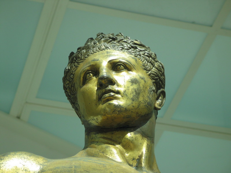 Hercules. Gilded bronze, Roman artwork, 2nd century BC.